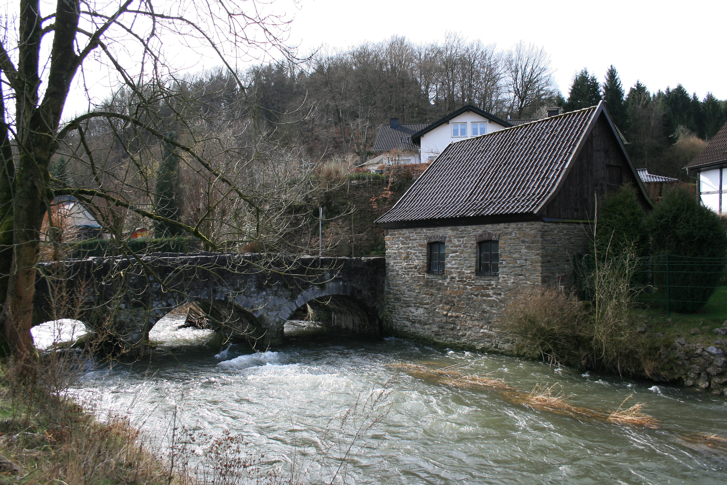 Brücke über die Hönne und Alte Schmiede in Balve-Volkringhausen. This image shows a heritage building in Germany, located in the North Rhine-Westphalian city Balve (no. 10).